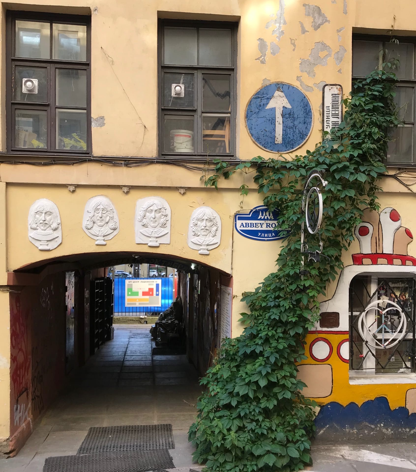 Улица Джона Леннона, расположенная возле входа в Музей Битлз Коли Васина